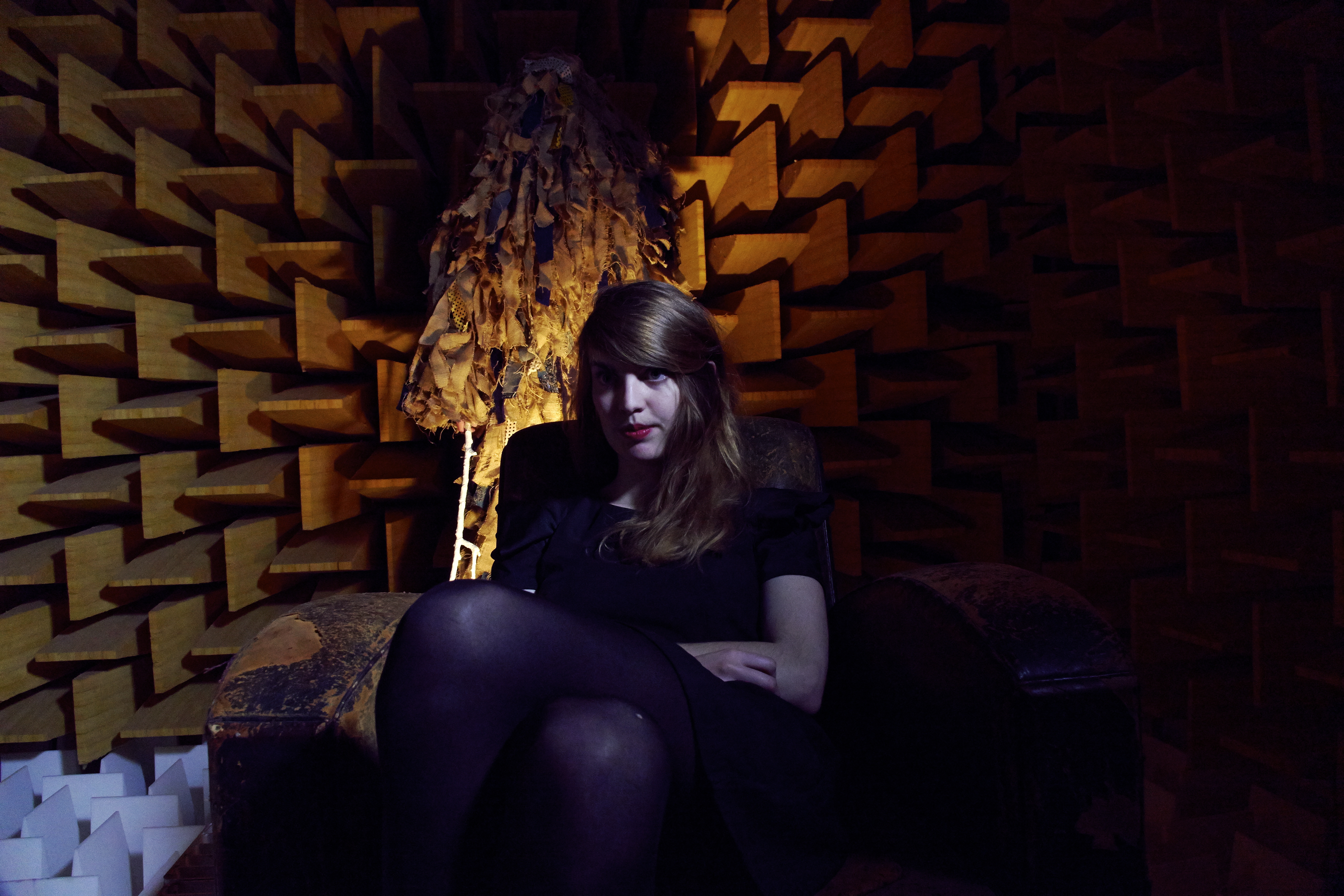 Blandine Rinkel et le gardien de l'inconscient sur le tournage d'EXPERIENCE INTEGRE de Gurwann Tran Van Gie